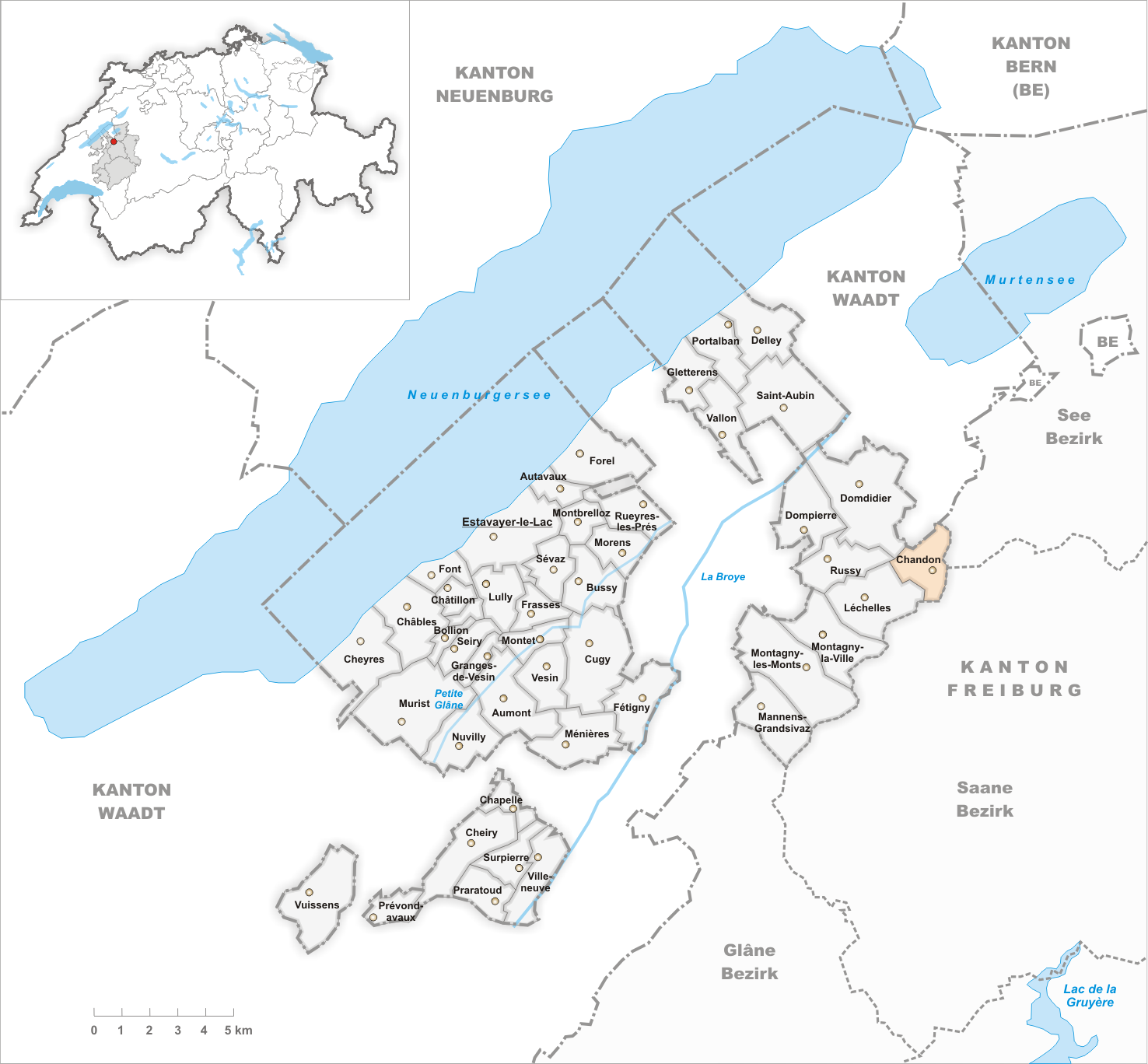 Municipality Chandon Artist: Tschubby